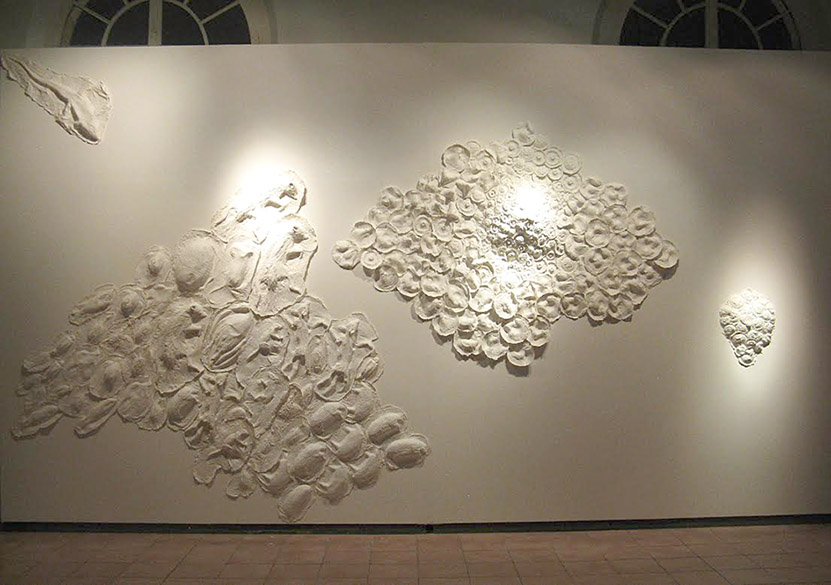 Rimer Cardillo, Anacahuita The pepper of the poor. Museum of Contemporary Art MACAY, Mérida, México (2014)